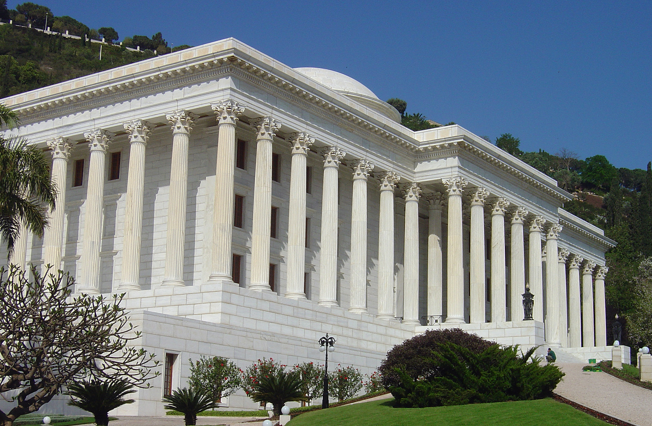 Seat of the Universal House of Justice